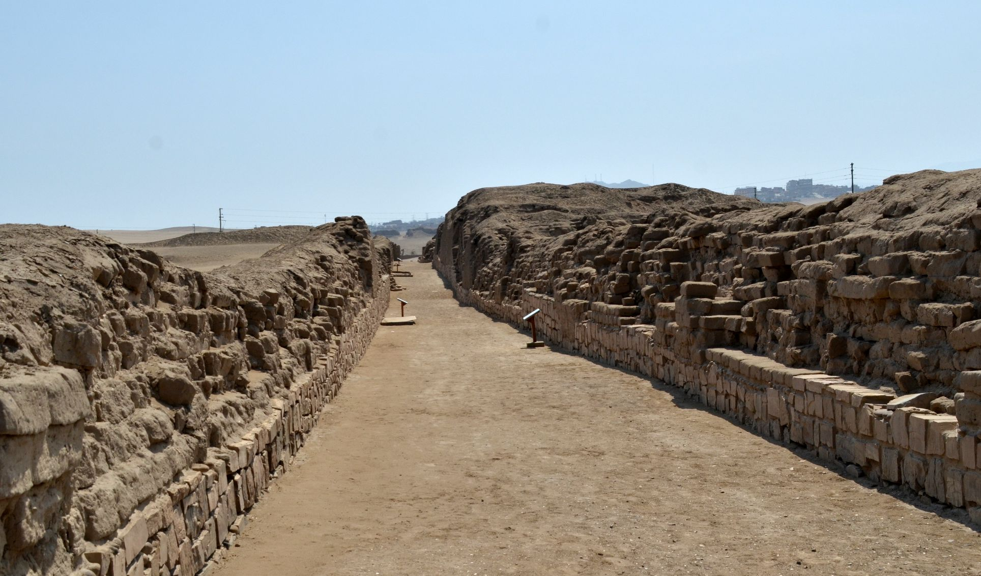 Archaeological area of the Pachacamac Sancturay: the main north-south road which is part of the Inka coastal road